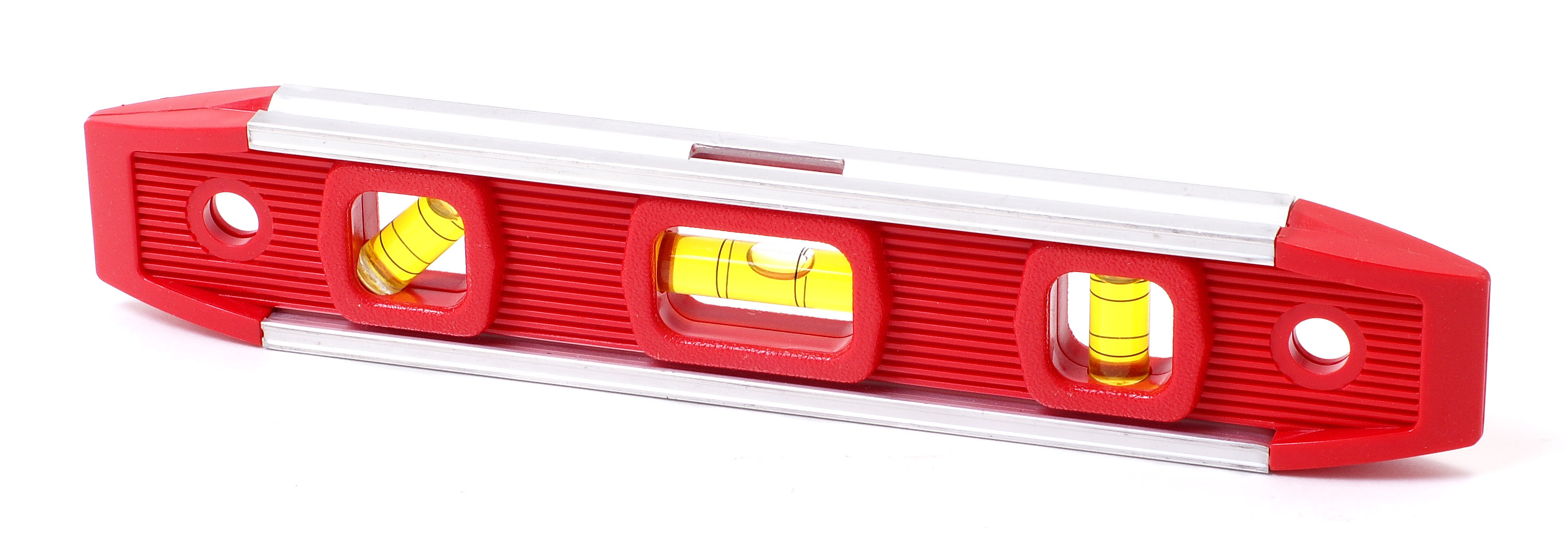 A spirit level, used for the home or carpentry.